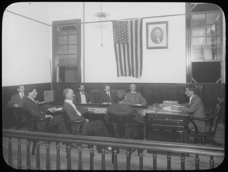 Description: Men in meeting, Woodbine, NJ Medium: Lantern slide Persistent URL: Repository: American Jewish Historical Society Parent Collection: Baron de Hirsch Fund Records, 1870-1991 Call Number: I-80 Rights Information: No known copyright restrictions; may be subject to third party rights. For more copyright information, click here. See more information about this image and others at CJH Digital Collections. Digital images created by the Gruss Lipper Digital Laboratory at the Center for Jewish History